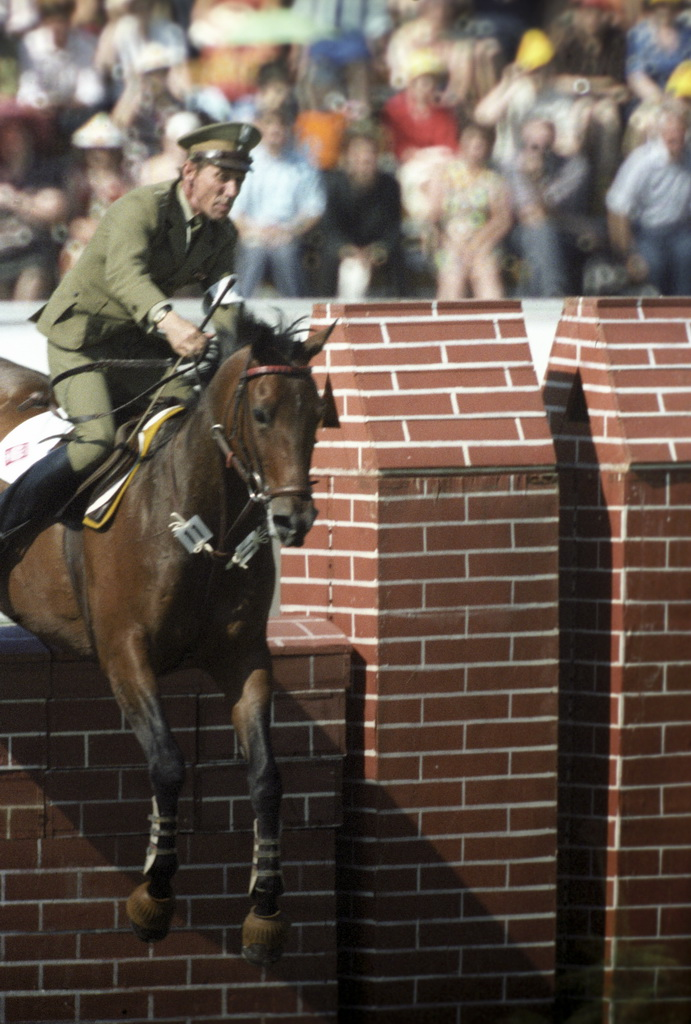 “Jan Kowalczyk”. XXII Summer Olympic Games. Equestrian. Performance of Jan Kowalczyk from Poland.